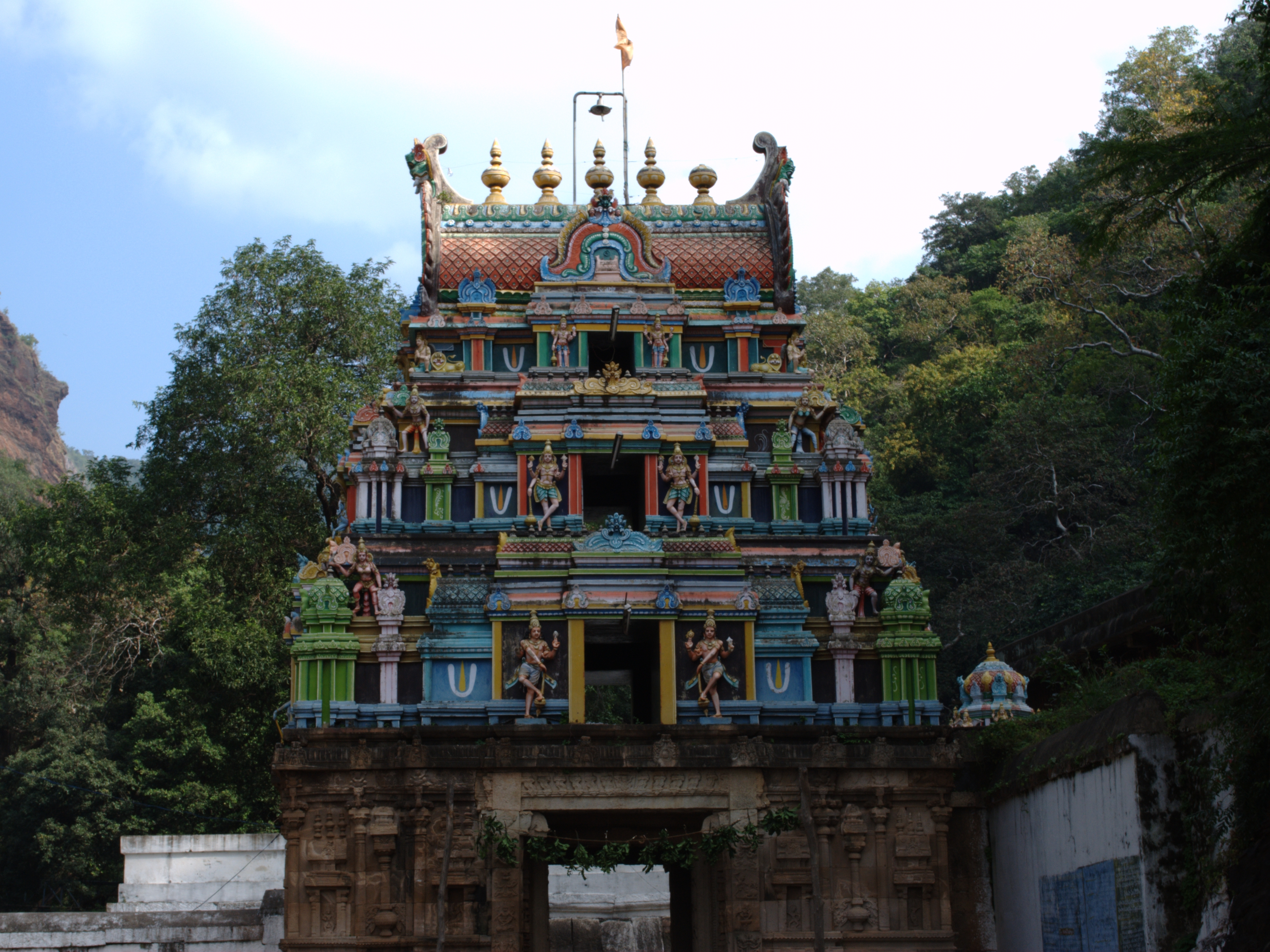 Upper (Eguva) Ahobilam temple Gopuram, Kurnool district